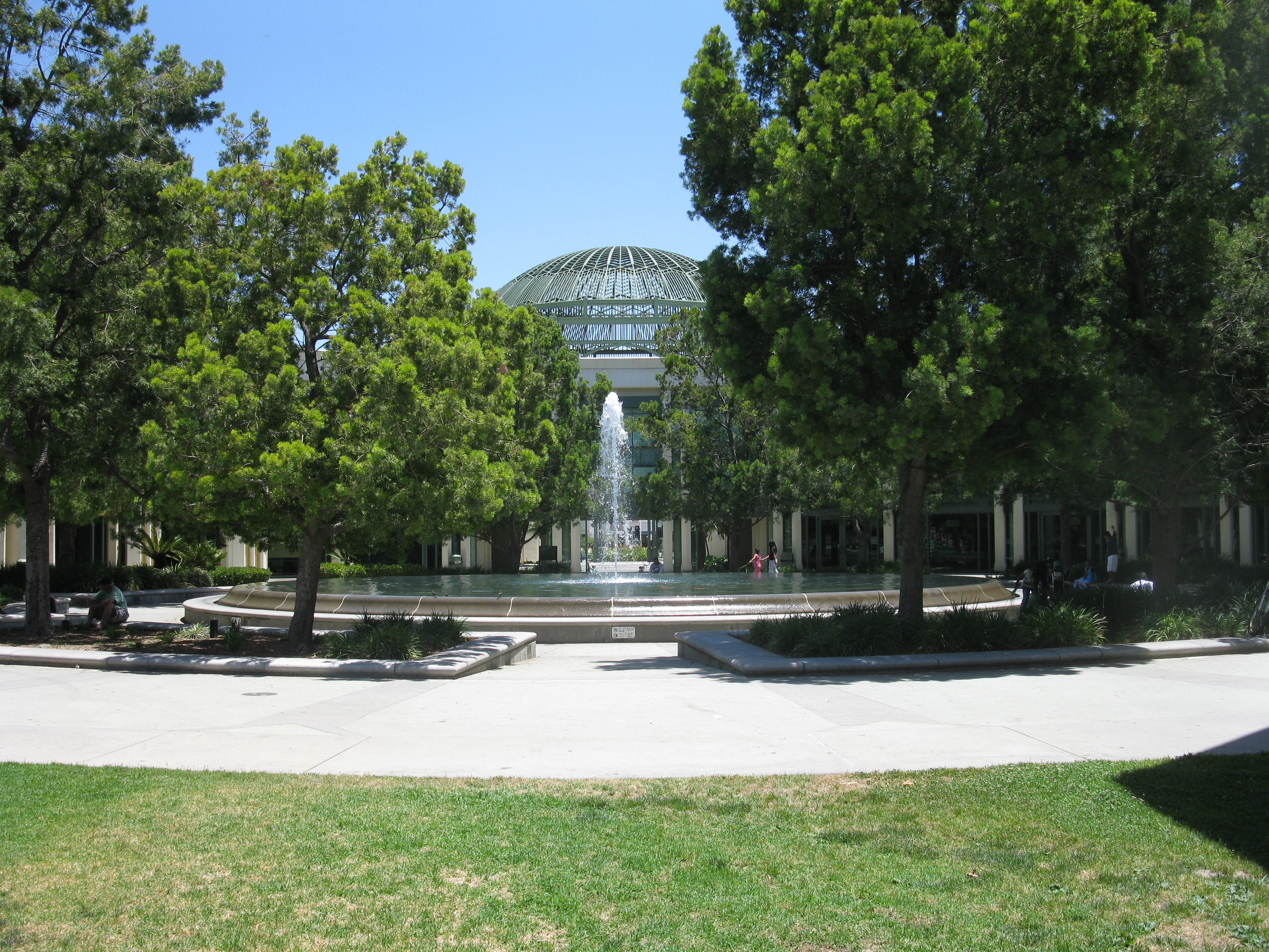 Photo taken by Chris Doig on June 13, 2010.